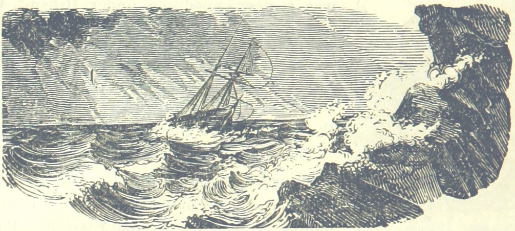 The ship of Jean Ribault is wrecked on the coast of Florida. Original caption was "Ribault wrecked"